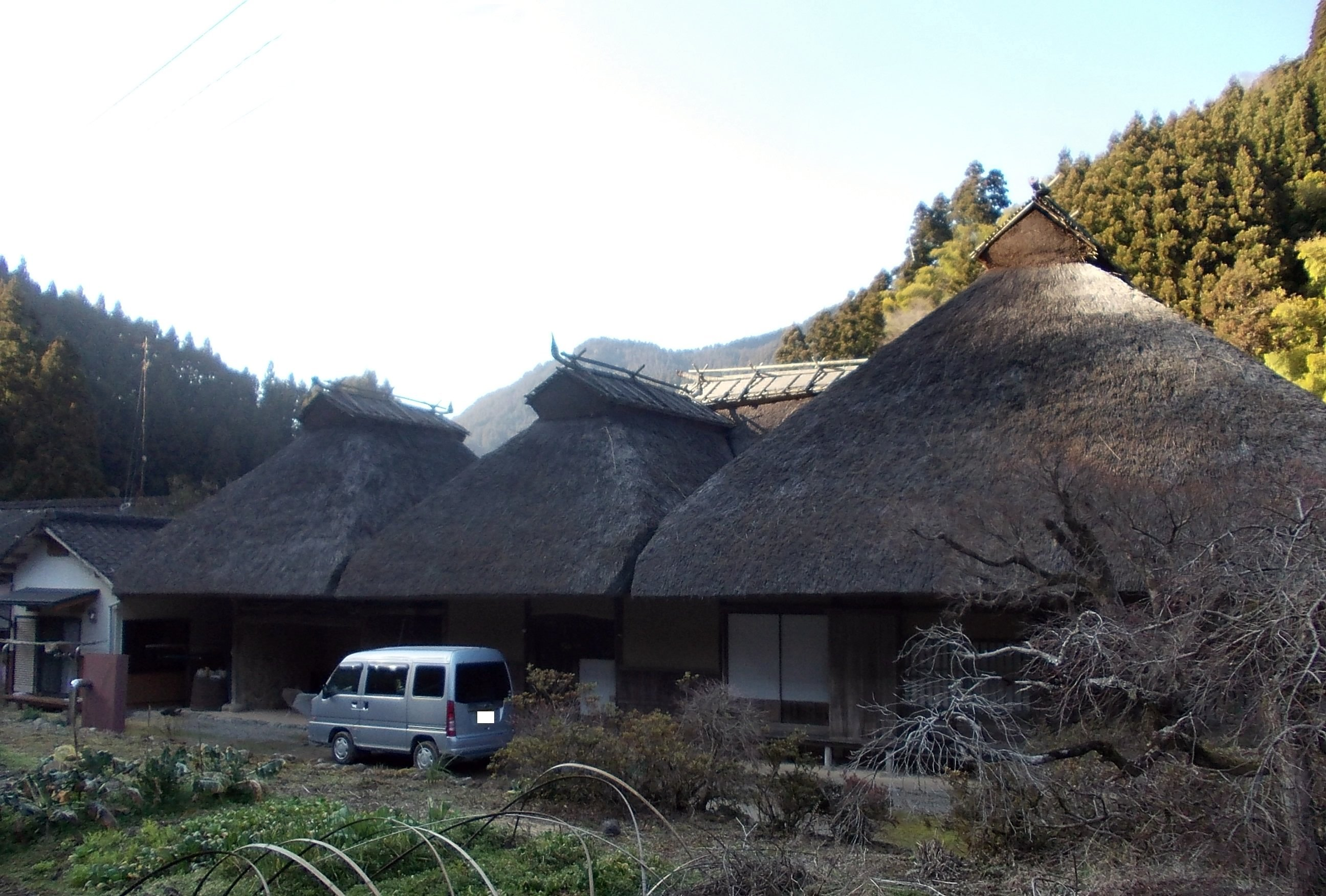 Hirakawa Family's Residence, a traditional Japanese style house with straw roofs, is located in the Niikawa Tagomori district of Ukiha city, Fukuoka, Japan. It is important cultural properties designated by the government.